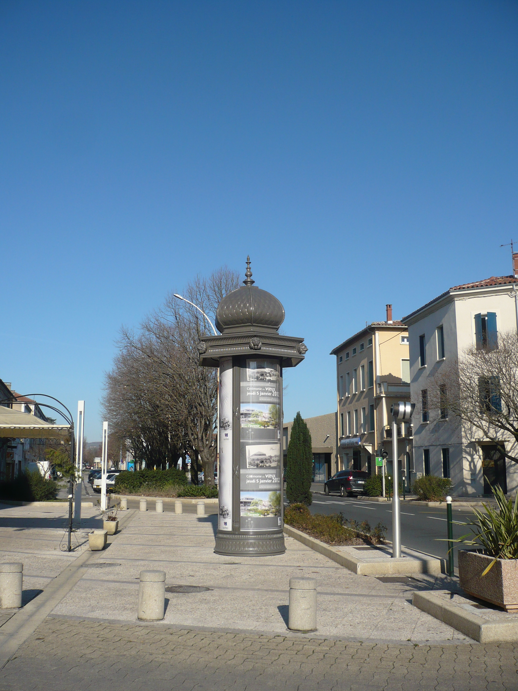 Castres